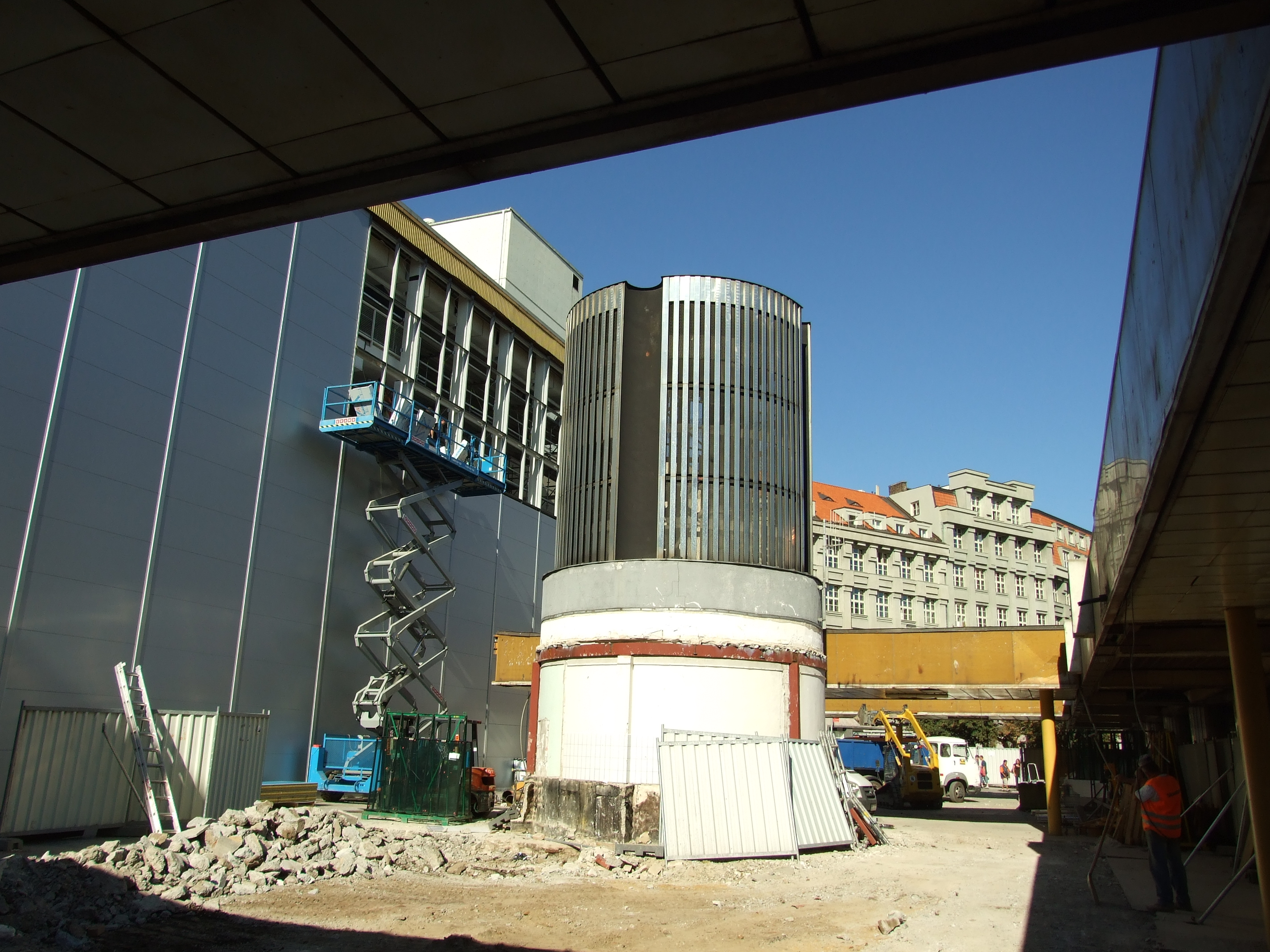 OD Tesco modernization and reconstruction. Not only tesco is being renewed, but surrounding Národní třída metro station is also object of some construction works